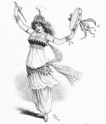 Morgiana dancing to save the life of Ali Baba